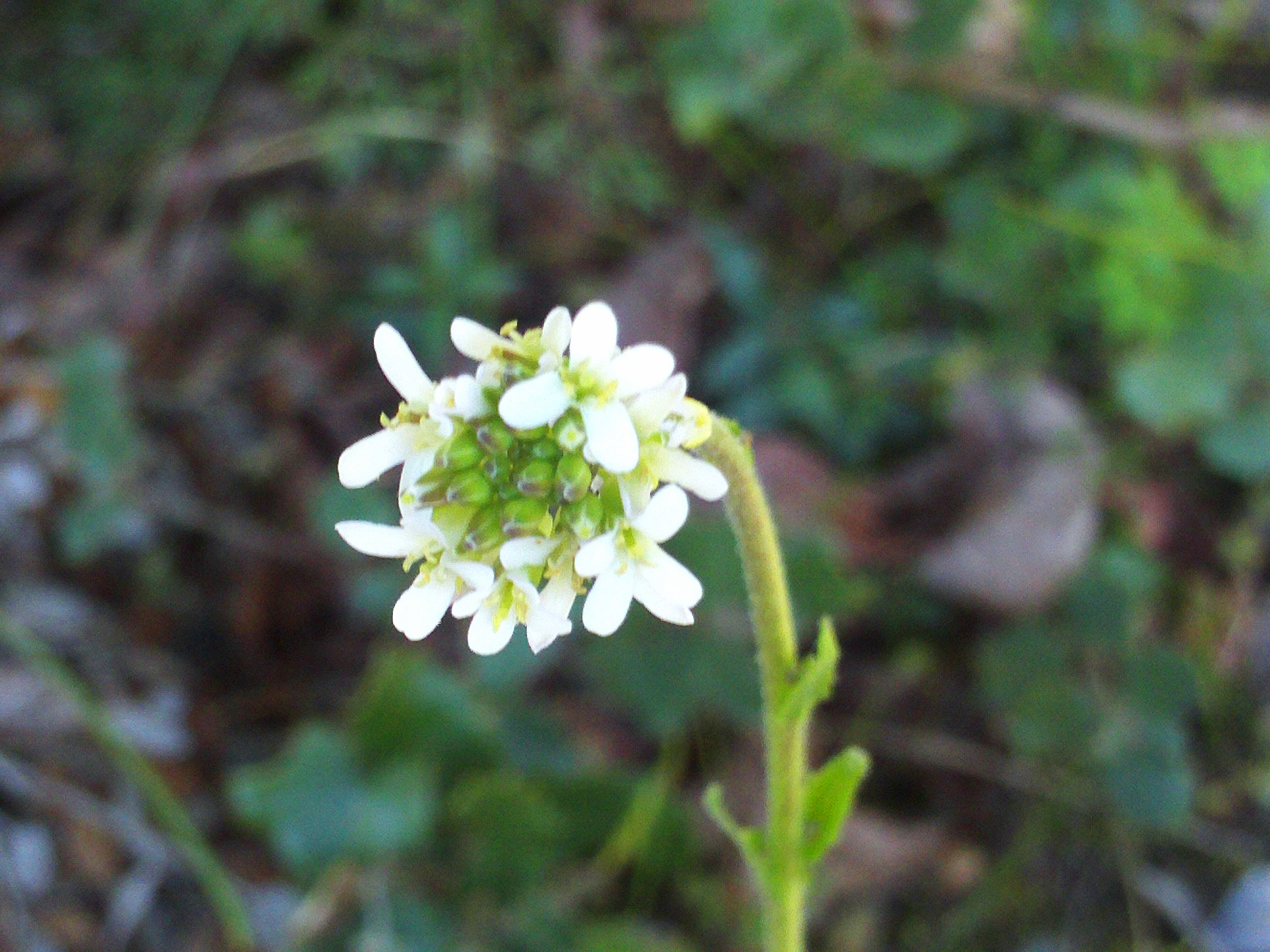 Arabis hirsuta flowers close up, Dehesa Boyal de Puertollano, Spain